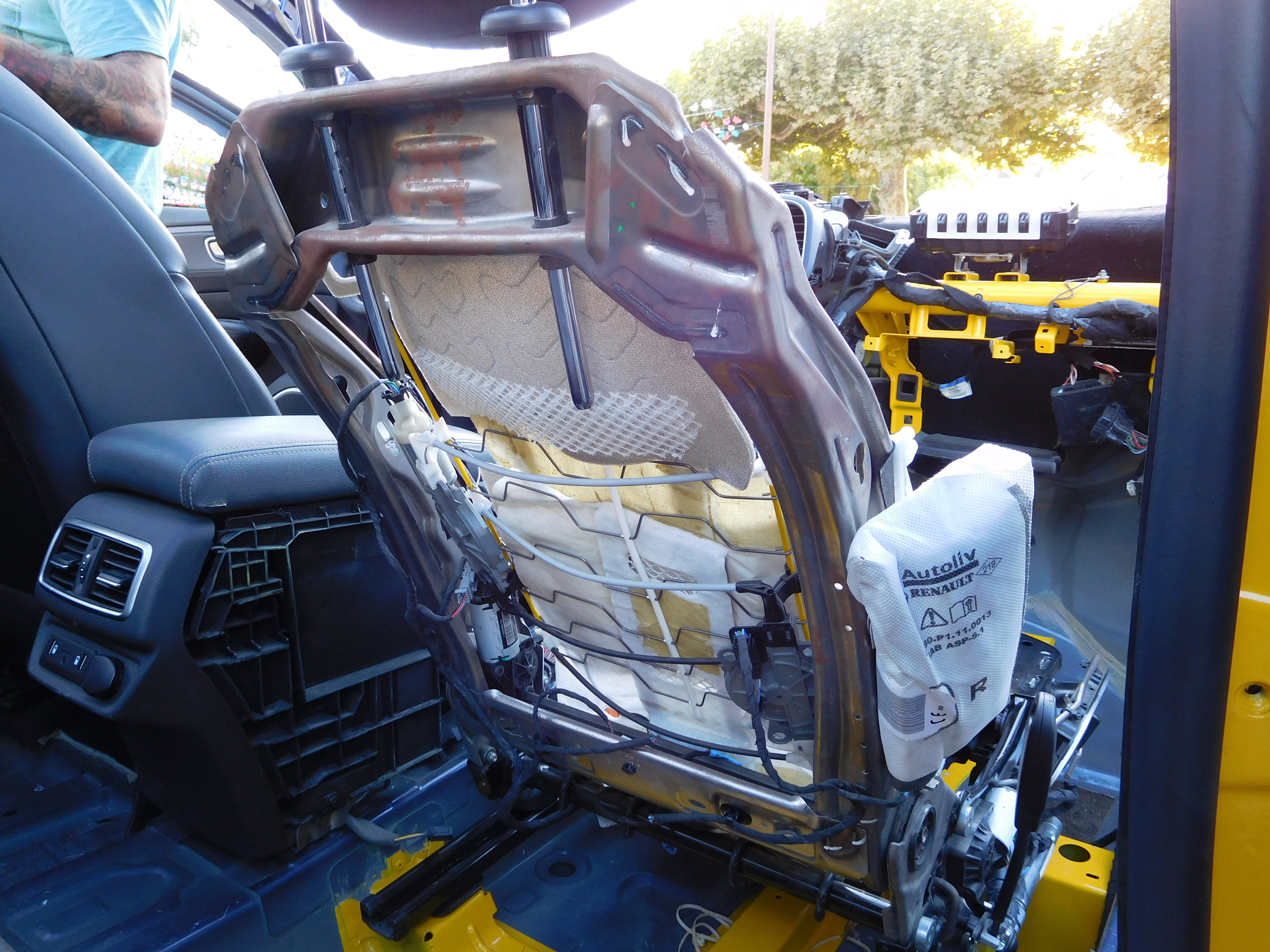 Renault Talisman Grandtour: undeployed Autoliv airbag.